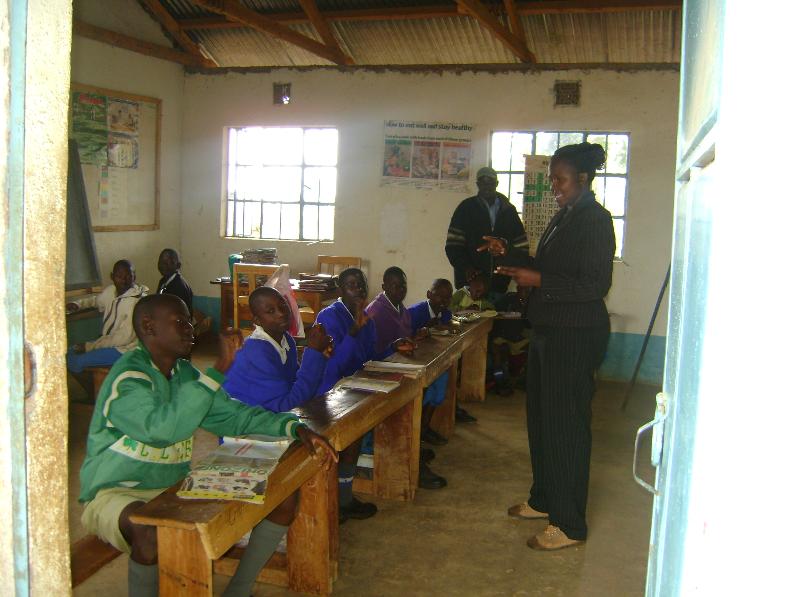 The special deaf facilities at Kayeiye, Kenya, attract deaf chidlren from the whole wider region. Moving Mountains Trust supports the school in providing an education for deaf chidlren, and through a dormitory ensure a comfortable and fun environment for them to live in.